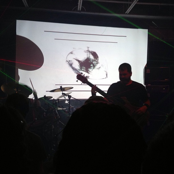 Intronaut performing live in 2013